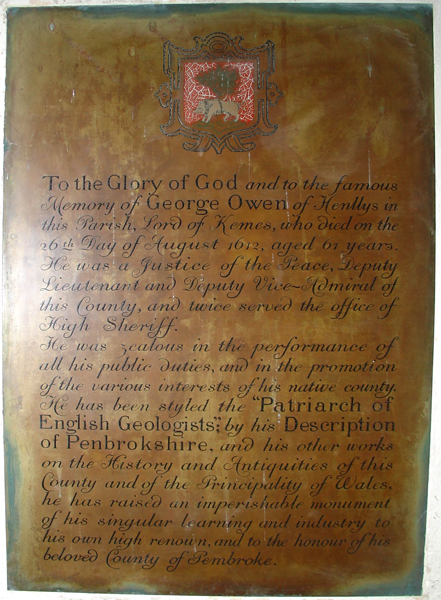 Plaque in St Brynach's parish church, Nevern, Pembrokeshire, commemorating George Owen of Henllys (1552–1613)